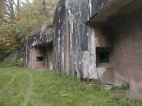 Shelter of Heidenbuckel